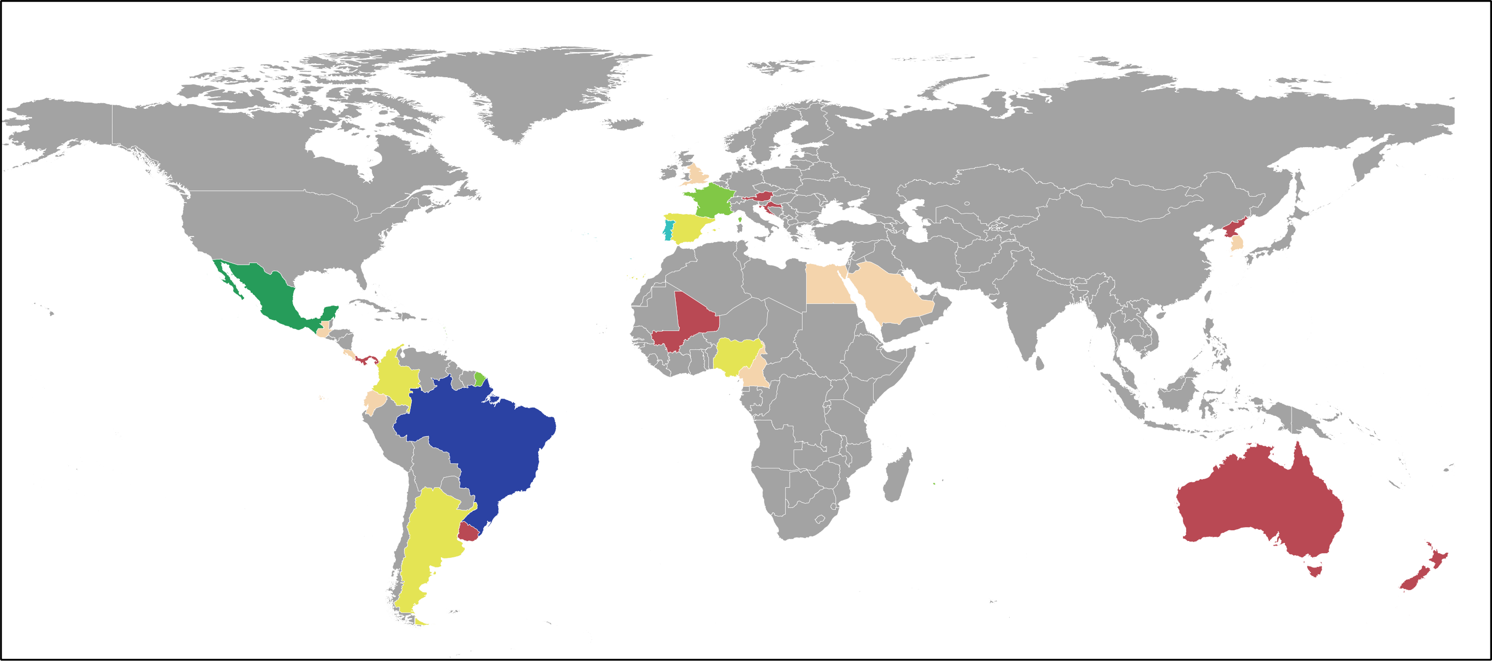 Map showing the results of the 2011 FIFA U-20 world cup